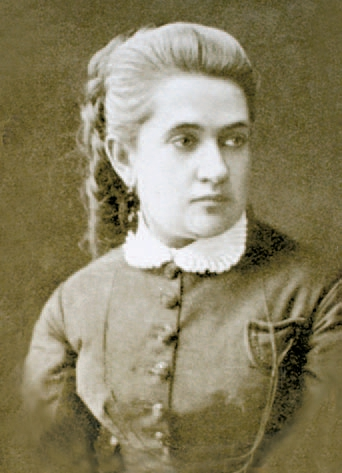 Christina D. Alchevskaya